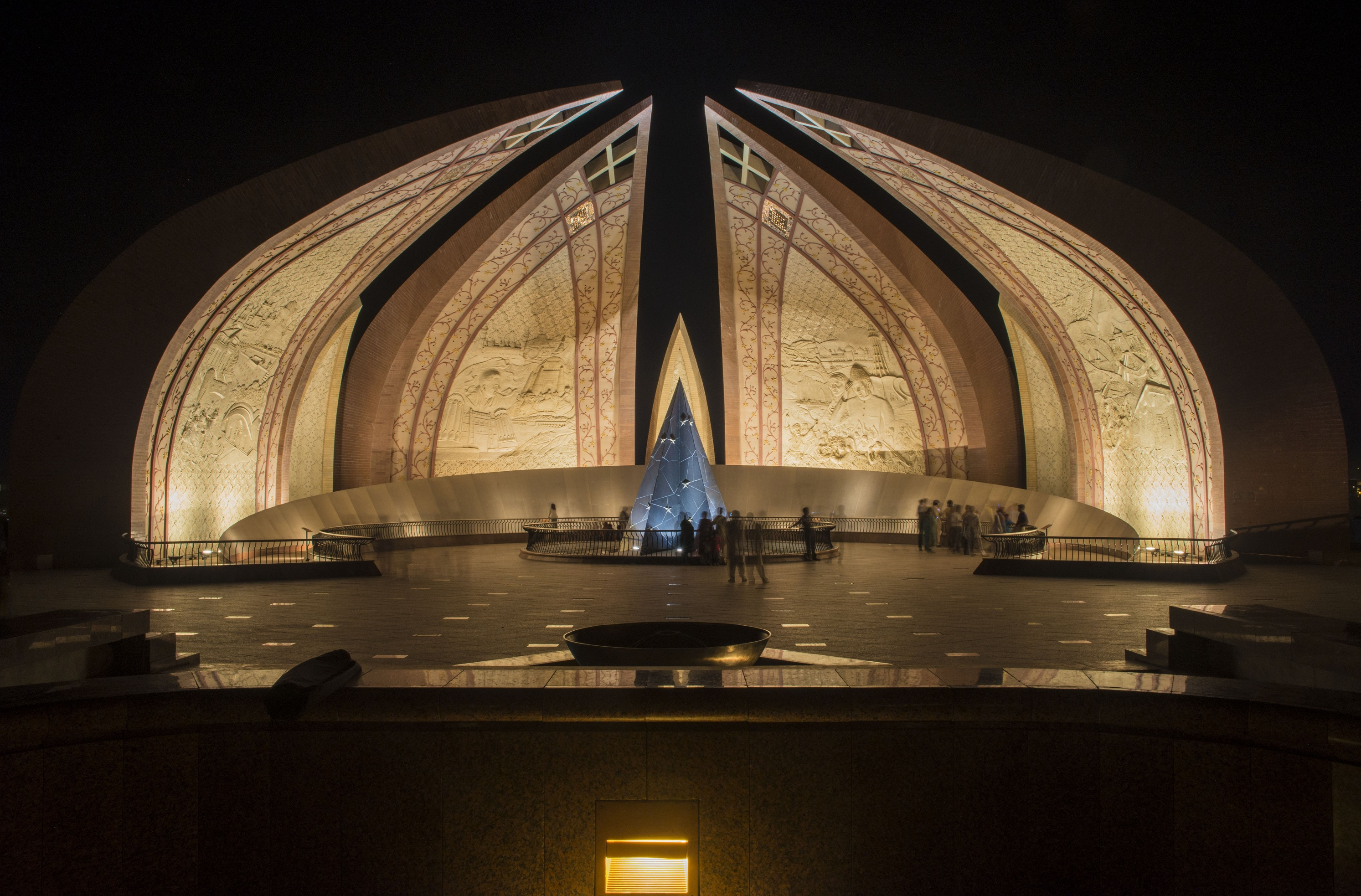 Pakistan Monument This is a photo of a monument in Pakistan identified as the ICT-4